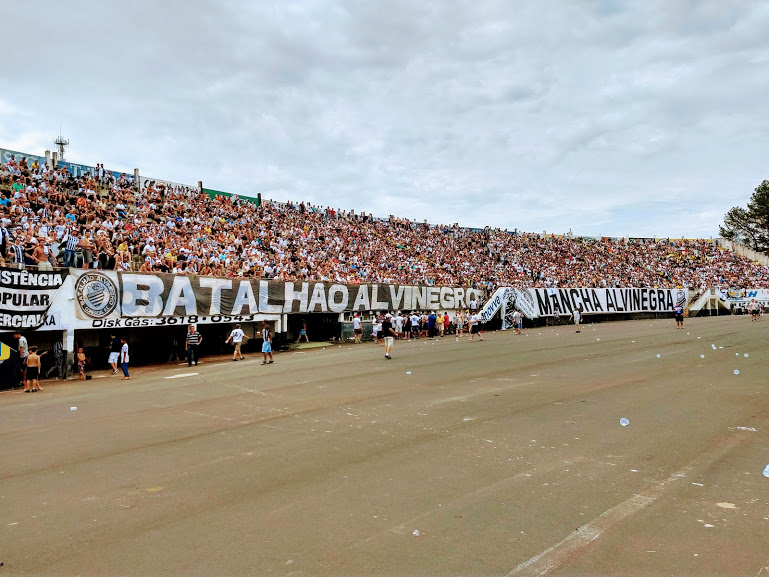 Organized fans of the traditional Comercial Futebol Clube, located in the city of Ribeirão Preto